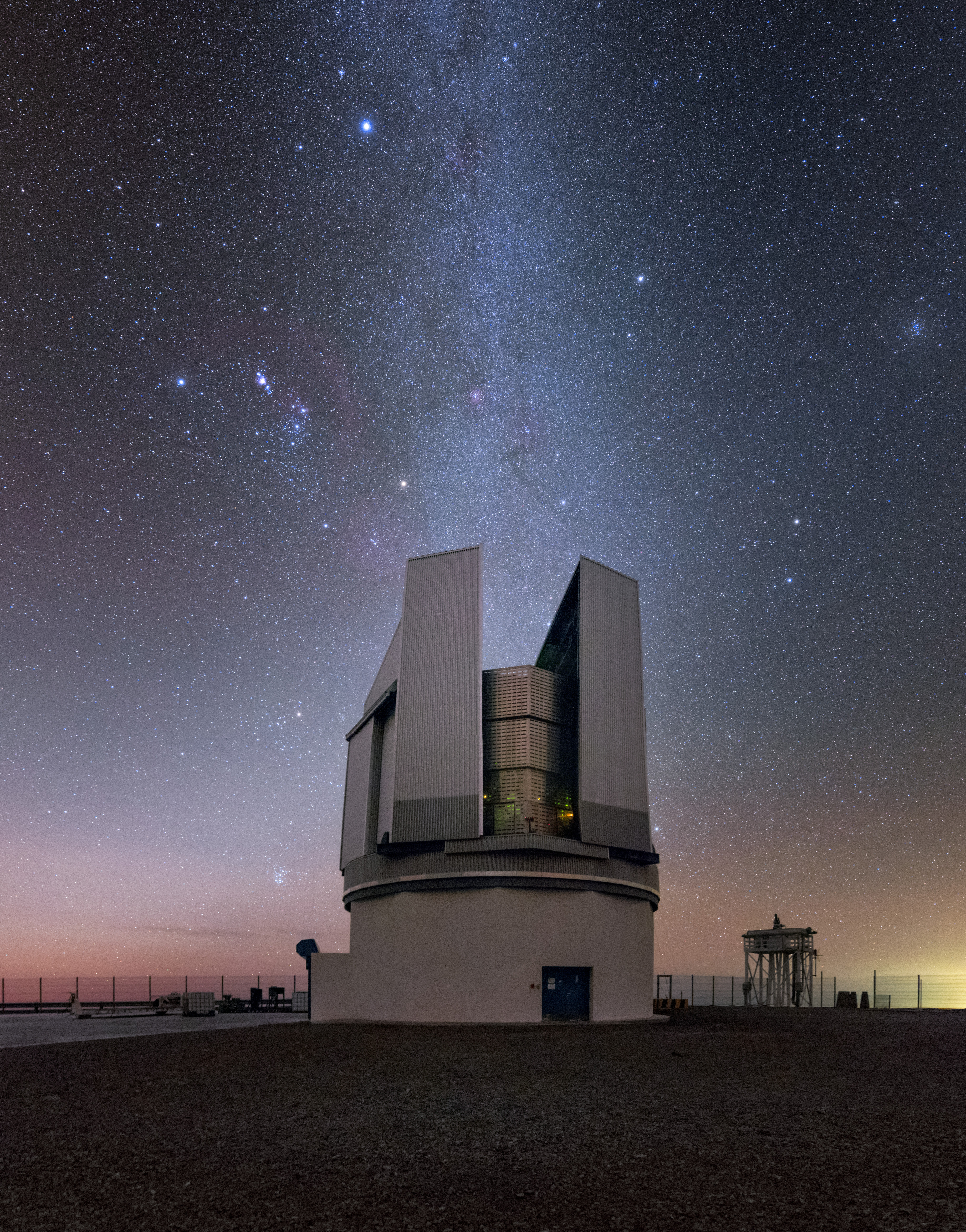 The soft glow of the Milky Way pours down like a waterfall over the VLT Survey Telescope (VST) at ESO’s Paranal Observatory. 2635 metres above sea level, the VST has an unparallelled view of the magnificently clear skies above Chile’s Atacama Desert. It is the largest telescope in the world dedicated to observational surveys in visible light, and it contributes to a vast range of studies, from discovering remote Solar System bodies to searching for exoplanet transits, to studying the structure and evolution of our galaxy. Above the VST, a few stars are particularly prominent just outside the main band of the galaxy: the bright reddish star is Betelgeuse, a red supergiant 640 light-years away thought to be on the brink of a supernova explosion. Betelgeuse and Bellatrix, the fainter white star to its left, are the shoulders of Orion the Hunter, one of the most famous and easily recognisable constellations in the sky. The three stars forming a straight line above the shoulders are Orion’s belt, and the nearby purple-tinged cluster of light is the Orion Nebula. Though it looks like a fuzzy patch to the naked-eye, binoculars or a telescope reveal it to be a spectacular nebula, host to massive amounts of star formation.